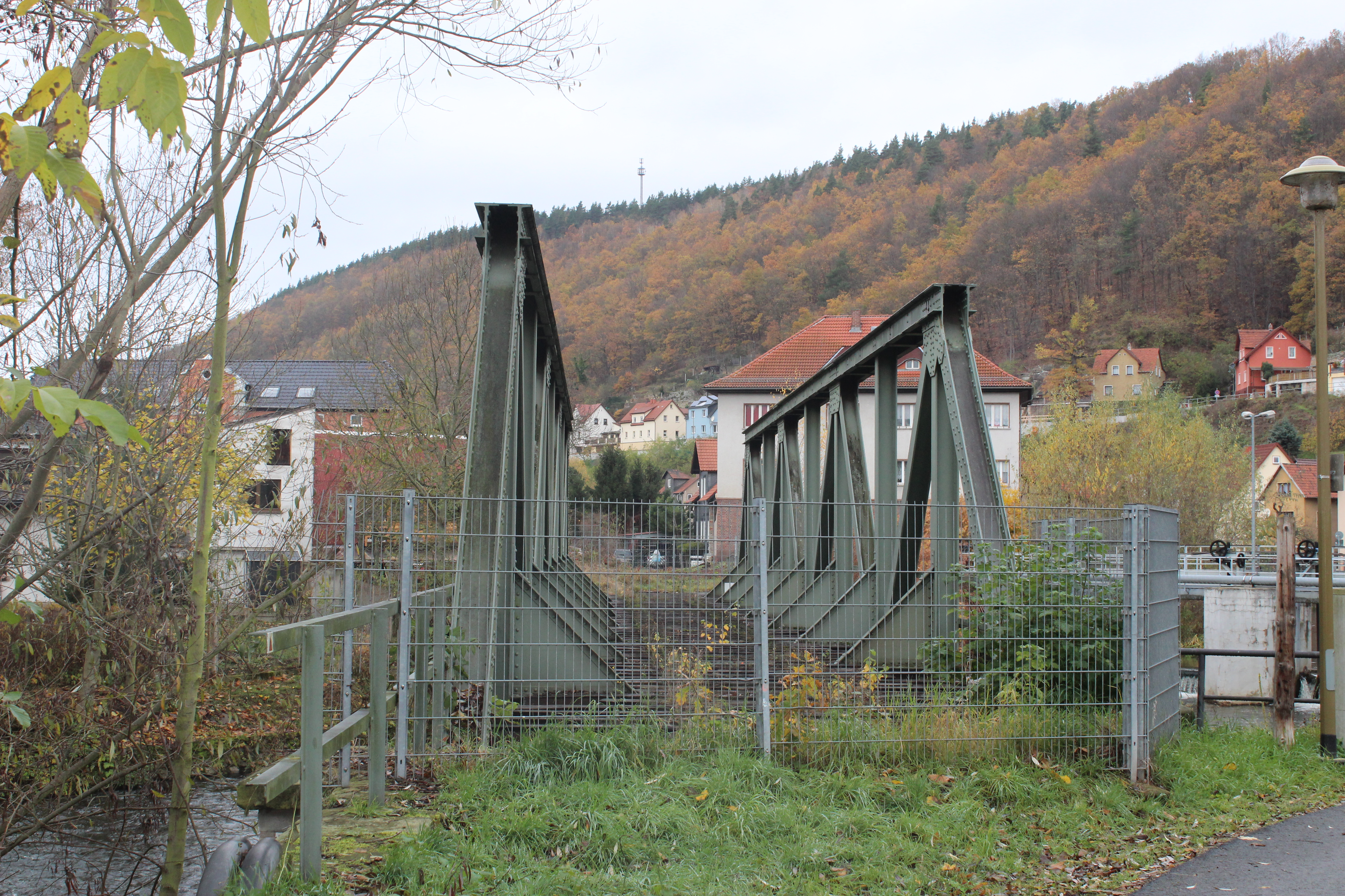 railway bridge in Rudolstadt-Schwarza